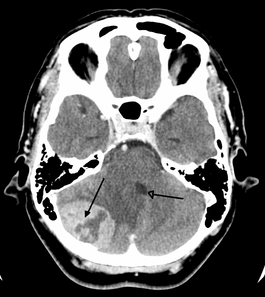 A posterior fossa tumor causing mass effect